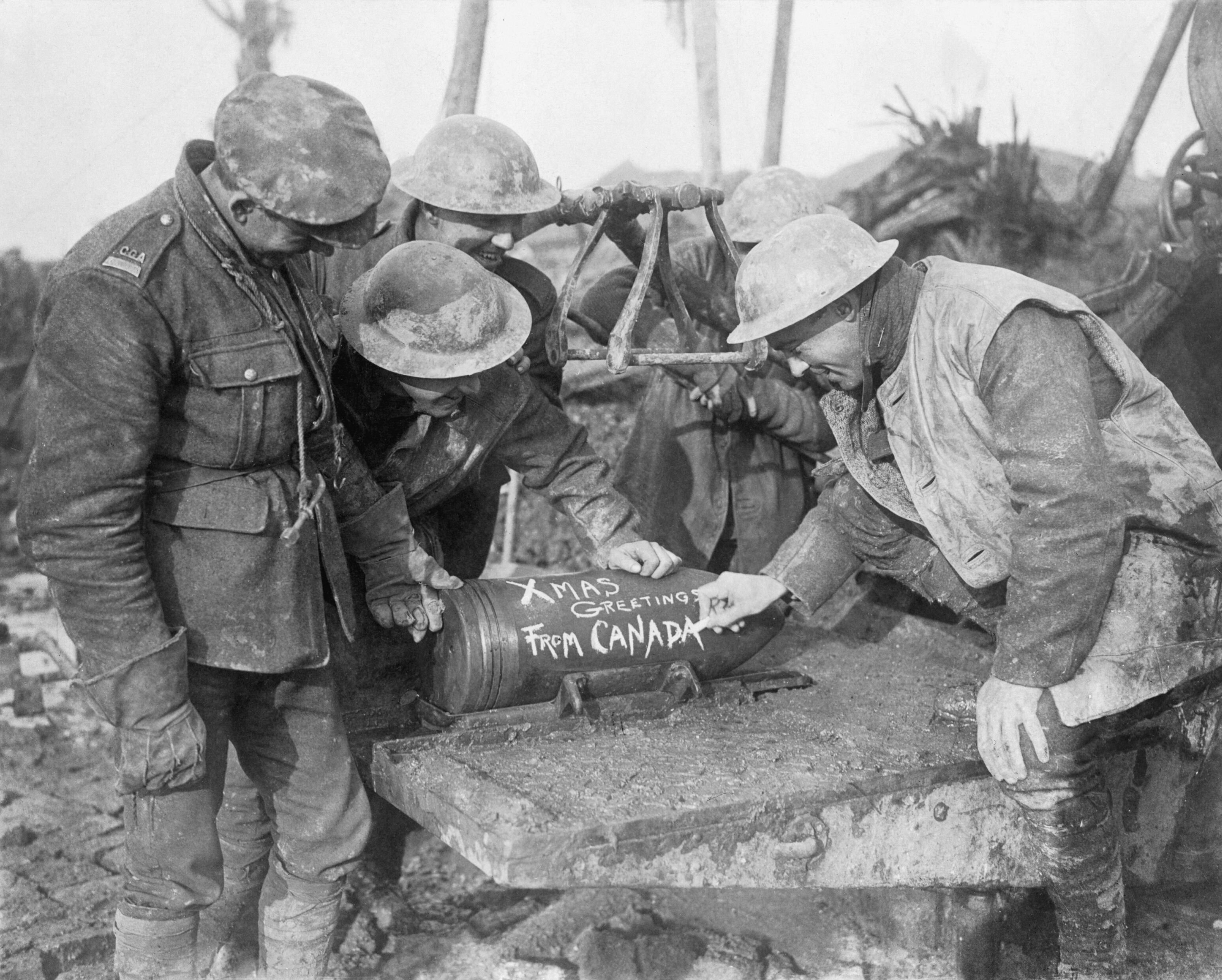 CANADIAN FORCES IN THE FIRST WORLD WAR Description: Canadian artillerymen add an early seasonal message to a shell for their 60 pounder field gun on the Somme front.